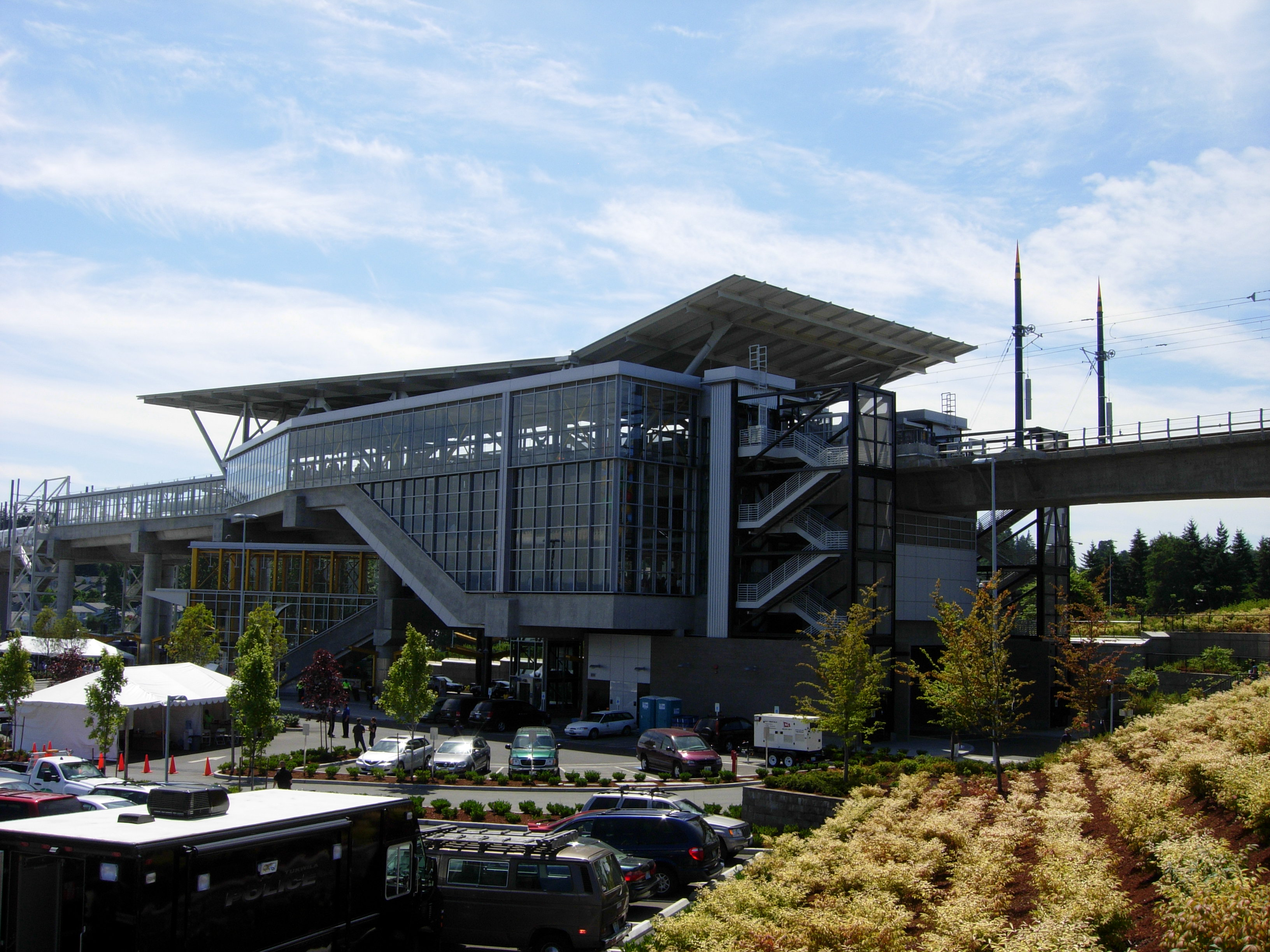 Tukwila International Blvd Station on opening day July 18, 2009. I took this photo myself.